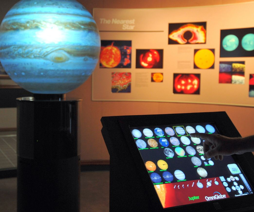 The Hologlobe inside the Vincent Building at Angelo State University.